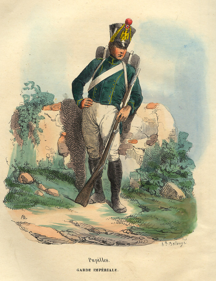 Pupil from the Imperial Guard of the Grande Armée. From book of P.-M. Laurent de L`Ardeche «Histoire de Napoleon», 1843